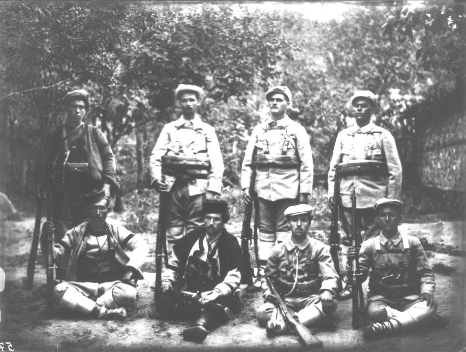 Kratovo cheta of IMARO before the Ilinden-Preobrazhenie uprising of Noy Dimitrov